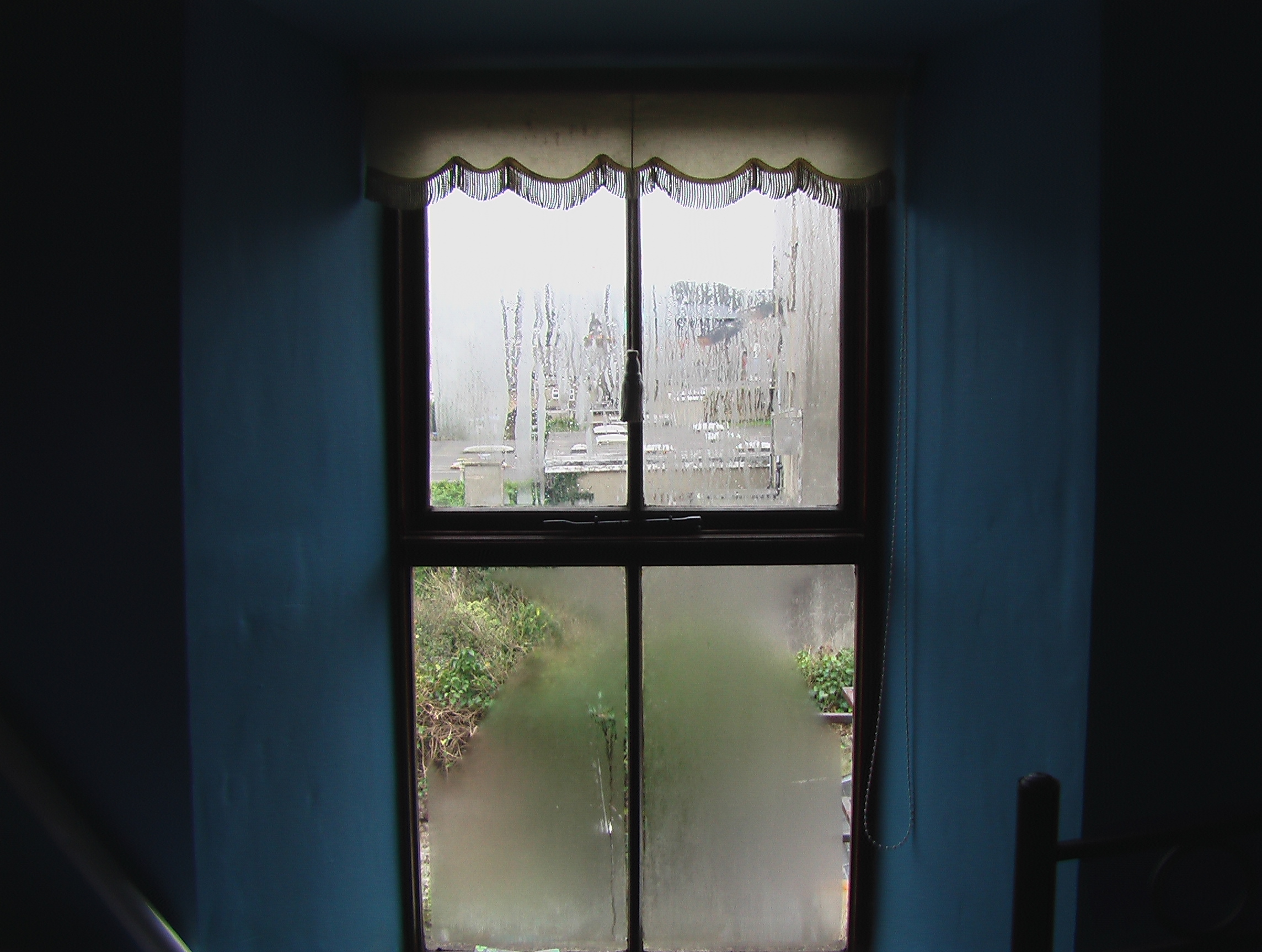 Condensation on a Window in Wexford, Ireland